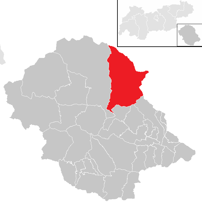 District Lienz